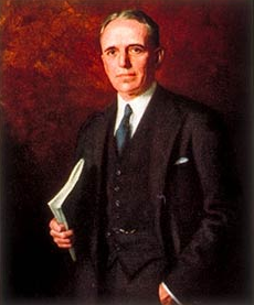 Cropped image from File:Time-magazine-cover-william-mitchell.jpg, frontpage image of former US Attorney General (1929–1933), William DeWitt Mitchell (1974–1955).